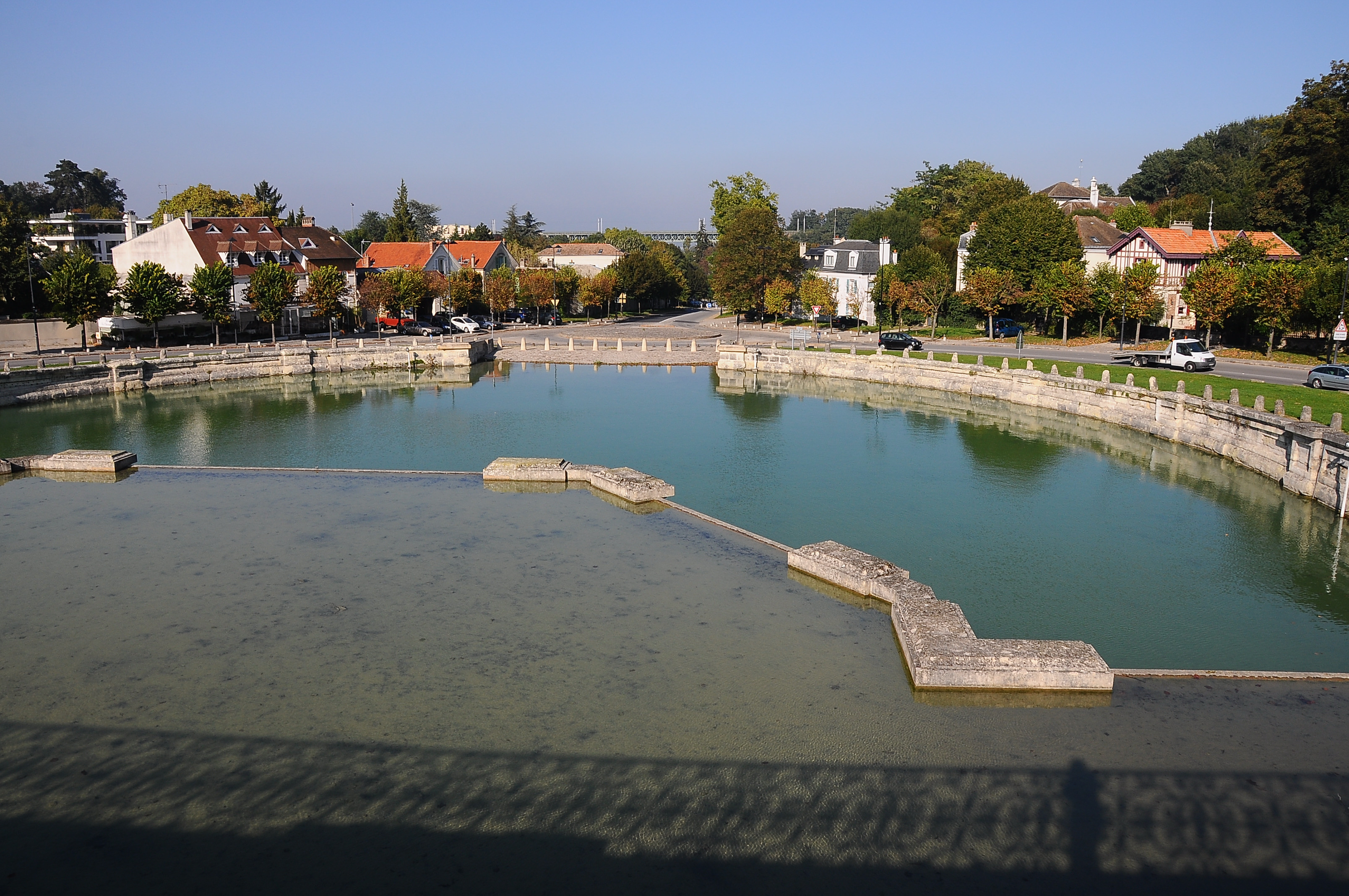 The horse-watering pool of the former château royal de Marly, in Marly-le-Roi, Yvelines, France.